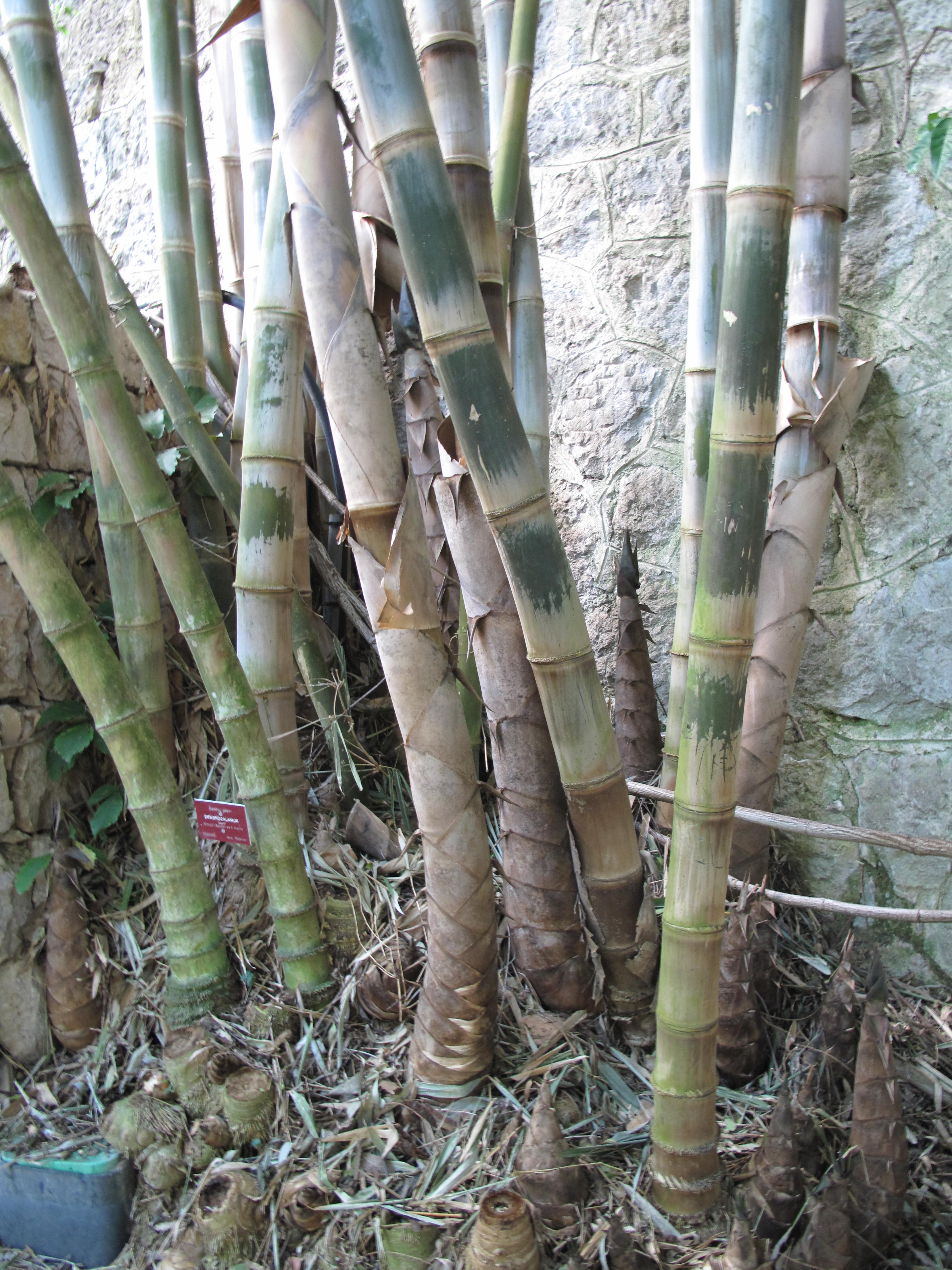 Dendrocalamus asper in the garden of Val-Rameh in Menton (Alpes-Maritimes, France)